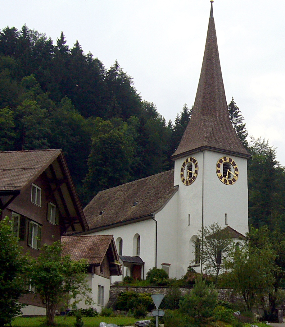 Church in Fischentahl, village in the canton of Zurich, Switzerland. Picture taken by Peter Berger, July 22, 2006.